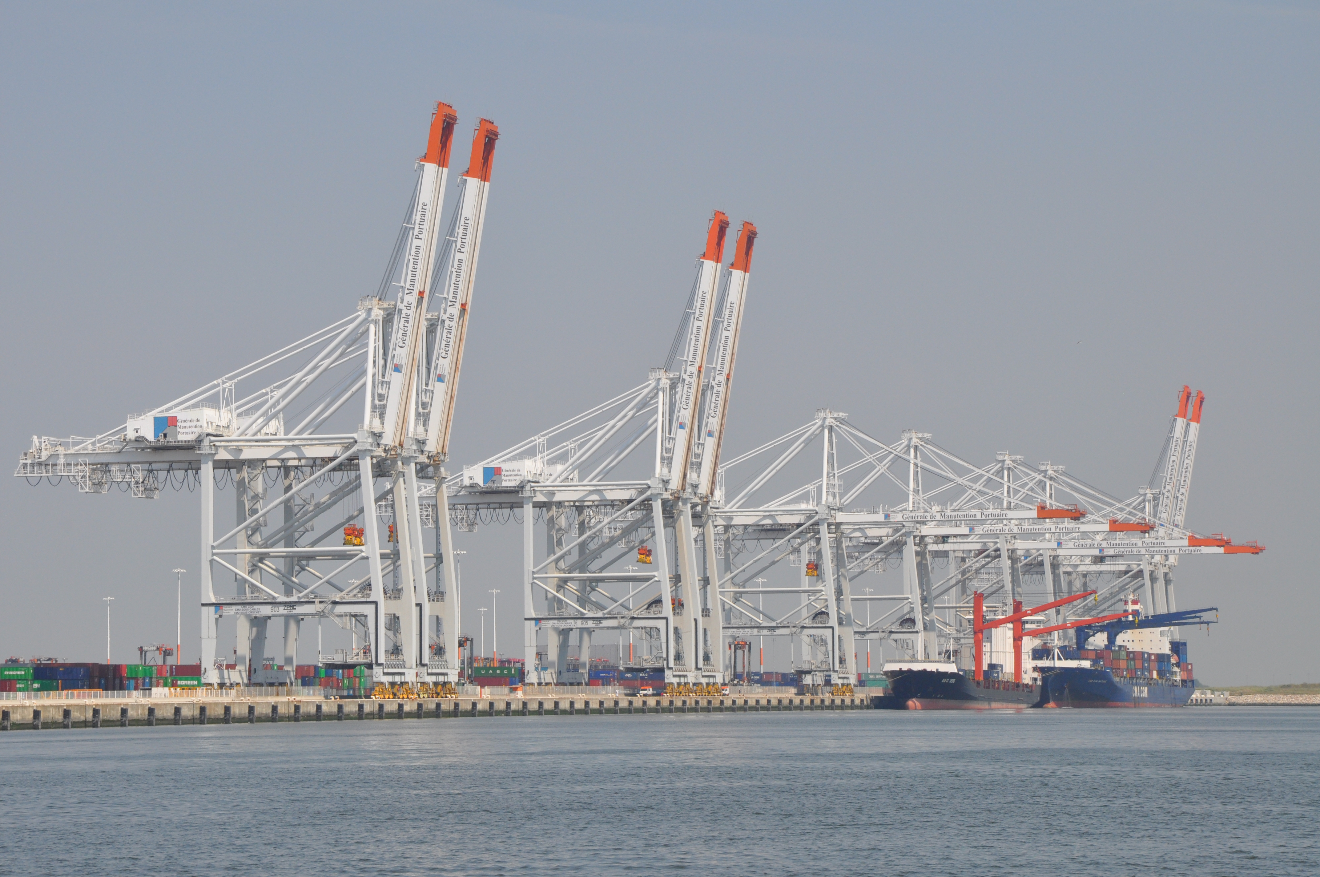 Le Havre (France, Normandy), new contenairs terminal (Port 2000)